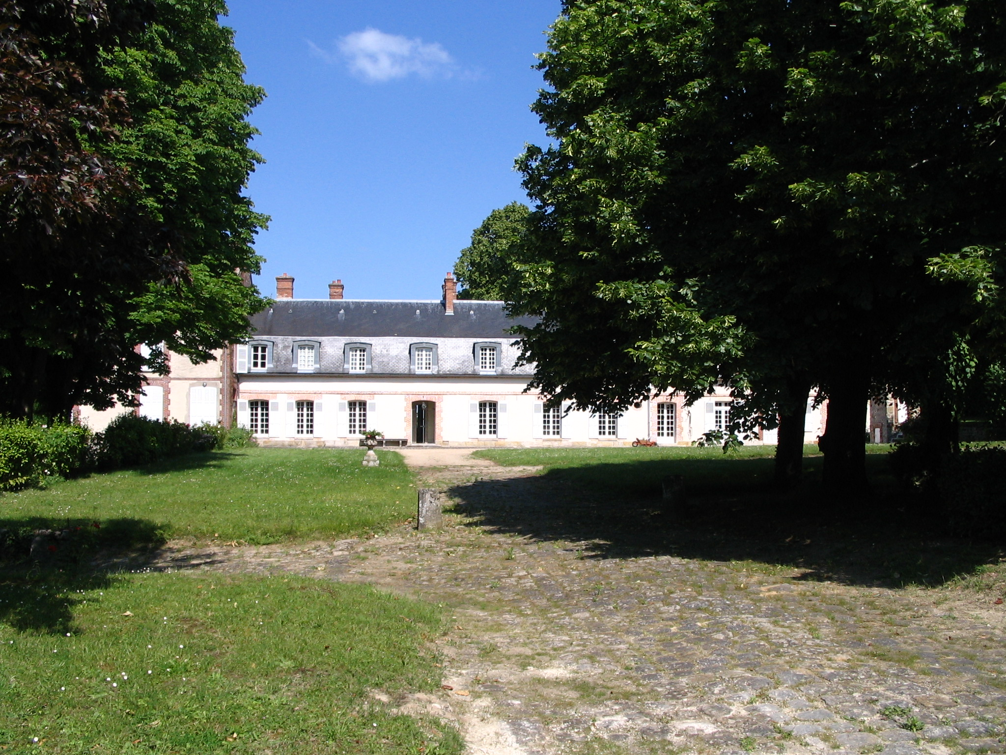 The Argeville castle, in Vernou-la-Celle-sur-Seine, Seine-et-Marne, France.